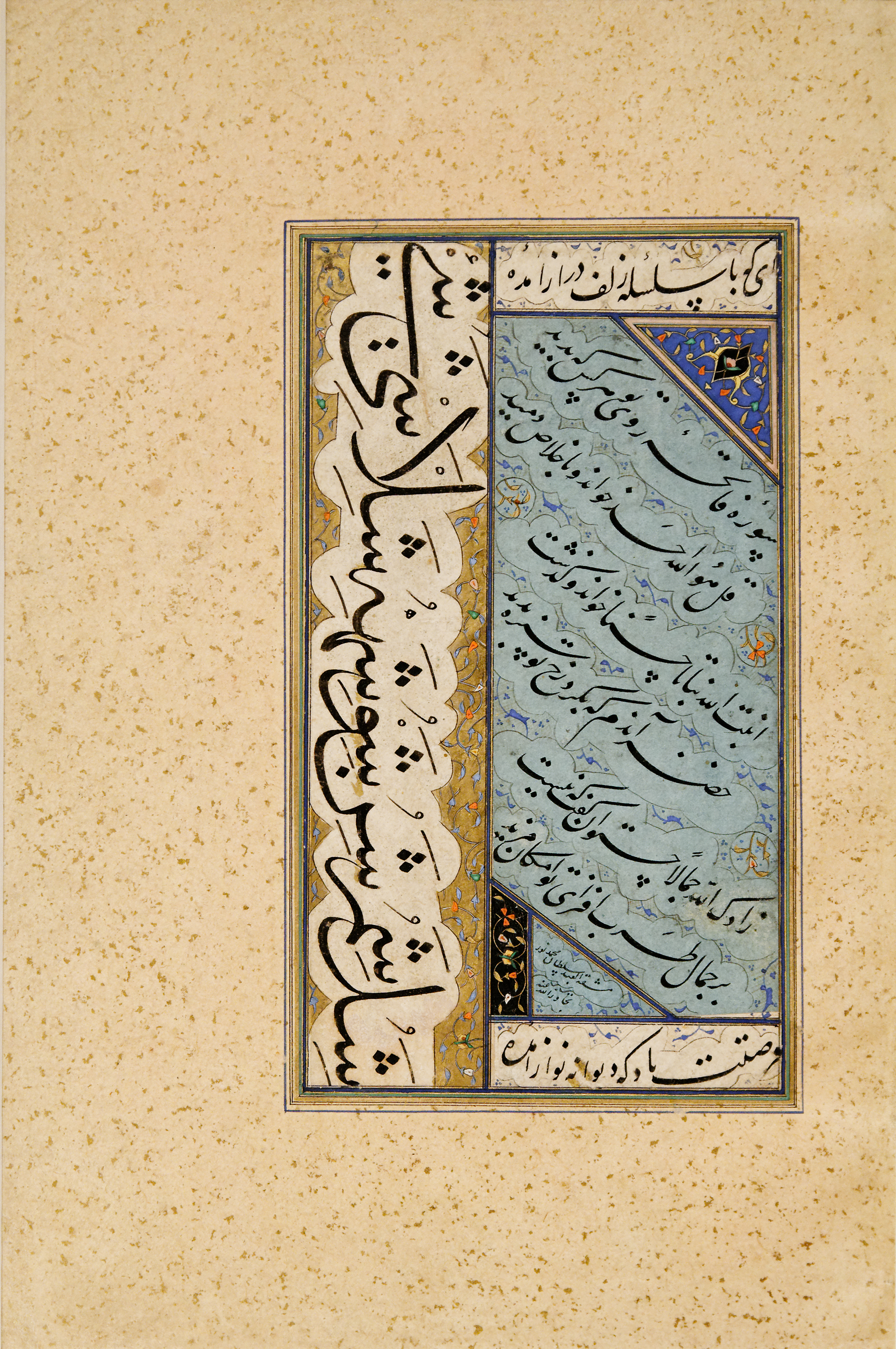 Leaf of calligraphy, Timurid artwork.